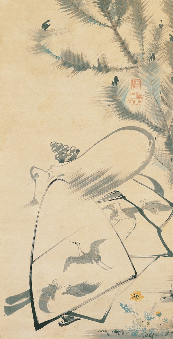 Fukurojin (Fukurokuju), the God of Longevity and Wisdom, Japan, Edo period, Hanging scroll